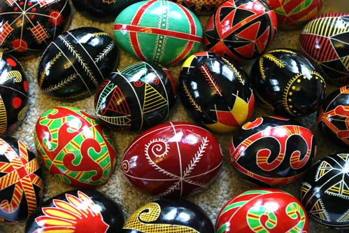 A collection of traditional pysanky from Volyn. Created by Luba Petrusha 2006 (me)